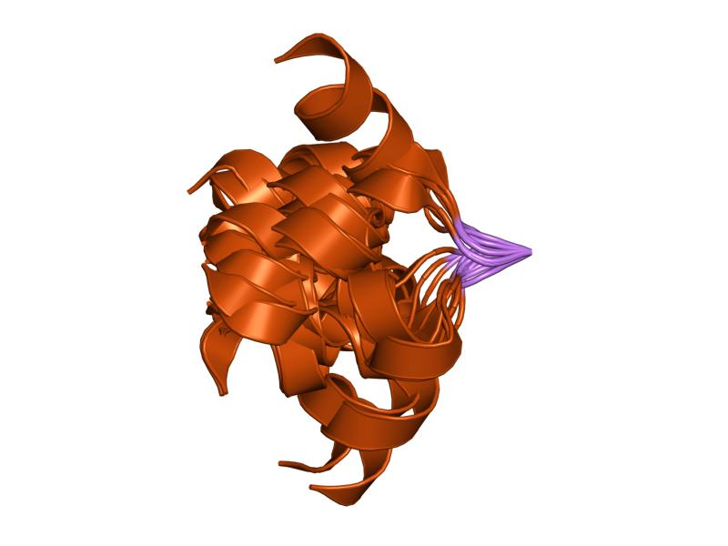 Cartoon representation of the molecular structure of protein registered with 1myu code.